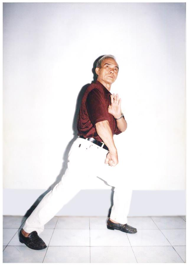 Sư hụ Hà Cường với một thế biểu diễn Kiều Thủ